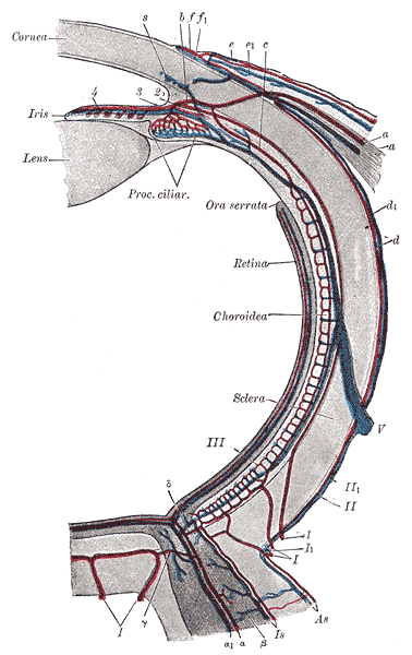 Gray's Anatomy plate. Diagram of the blood vessels of the eye, as seen in a horizontal section. (Leber, after Stöhr.). Course of vasa centralia retinæ: a. Arteria; a1. Vena centralis retinæ; B. Anastomosis with vessels of outer coats; C. Anastomosis with branches of short posterior ciliary arteries; D. Anastomosis with chorioideal vessels. Course of vasa ciliar. postic. brev.: I. Arteriæ, and I1. Venæ ciliar. postic. brev.; II. Episcleral artery; II1. Episcleral vein; III. Capillaries of lamina choriocapillaris. Course of vasa ciliar. postic. long.: 1. a. ciliar. post. longa; 2. Circulus iridis major cut across; 3. Branches to ciliary body; 4. Branches to iris. Course of vasa ciliar. ant.: a. Arteria. a1. Vena ciliar. ant.; b. Junction with the circulus iridis major; c. Junction with lamina choriocapill; d. Arterial, and d1. Venous episcleral branches; e. Arterial, and e1. Venous branches to conjunctiva scleræ; f. Arterial, and f1. Venous branches to corneal border. V. Vena vorticos; S. Transverse section of sinus venosus scleræ.